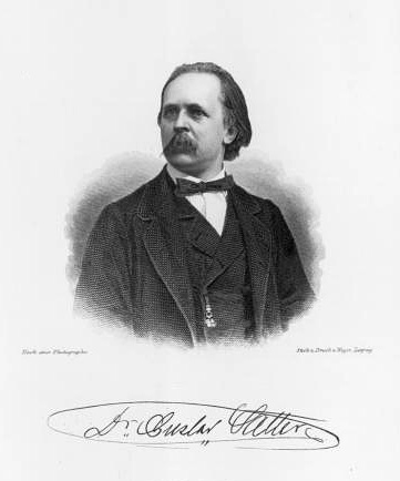 The Austrian pianist Gustave Satter (1832—1879)